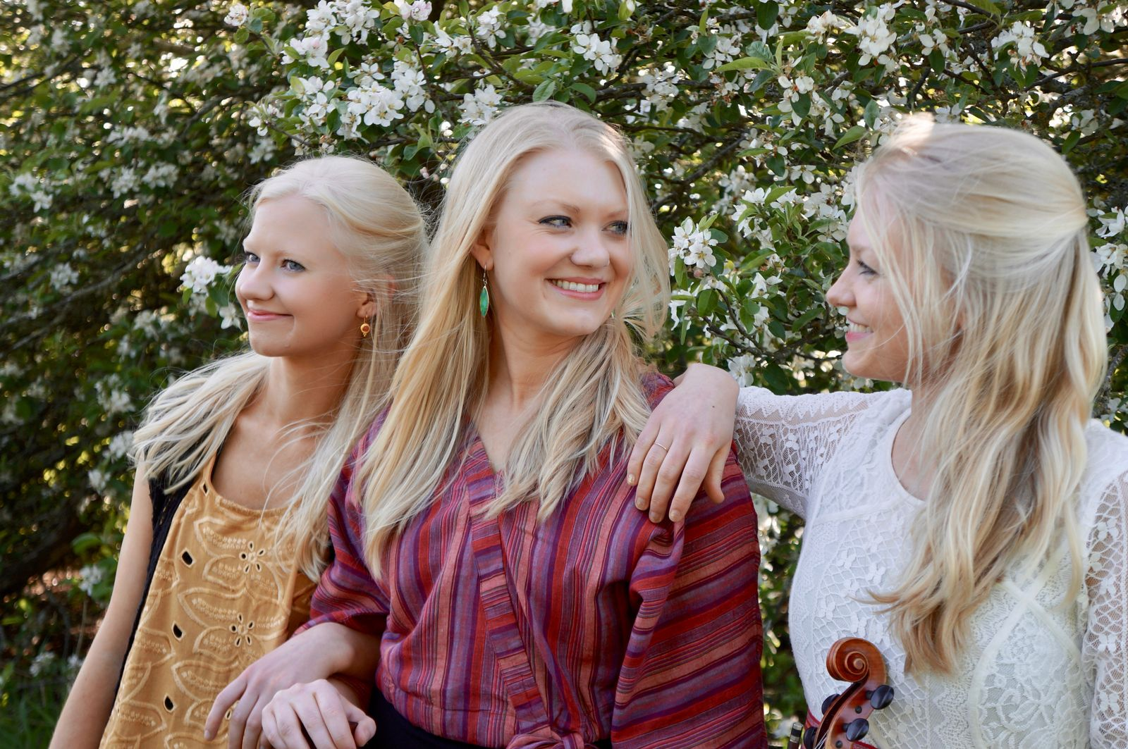 (From left to right): Solana, Greta and Willow Gothard smile in front of flowery vegetation in 2018.